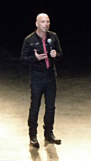 Picture of comedian Howie Mandel performing outside at the Evergreen State Fair in Monroe, Washington.